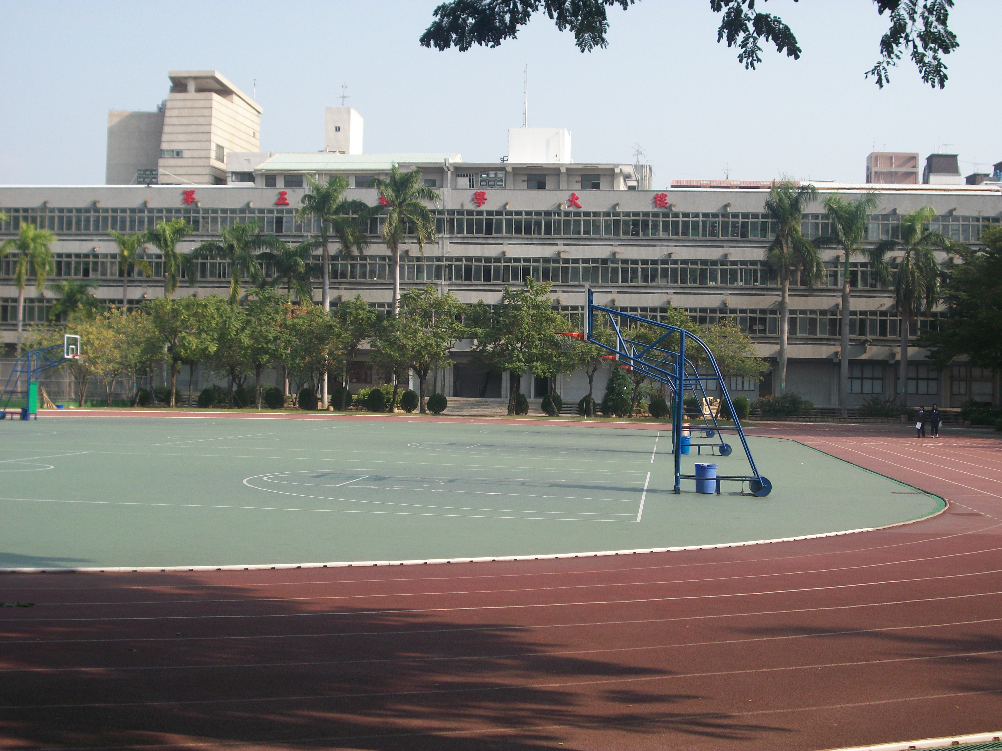 Shinmin Secondary School Playing Field.中文（台灣）: 臺中市私立新民高級中學操場。